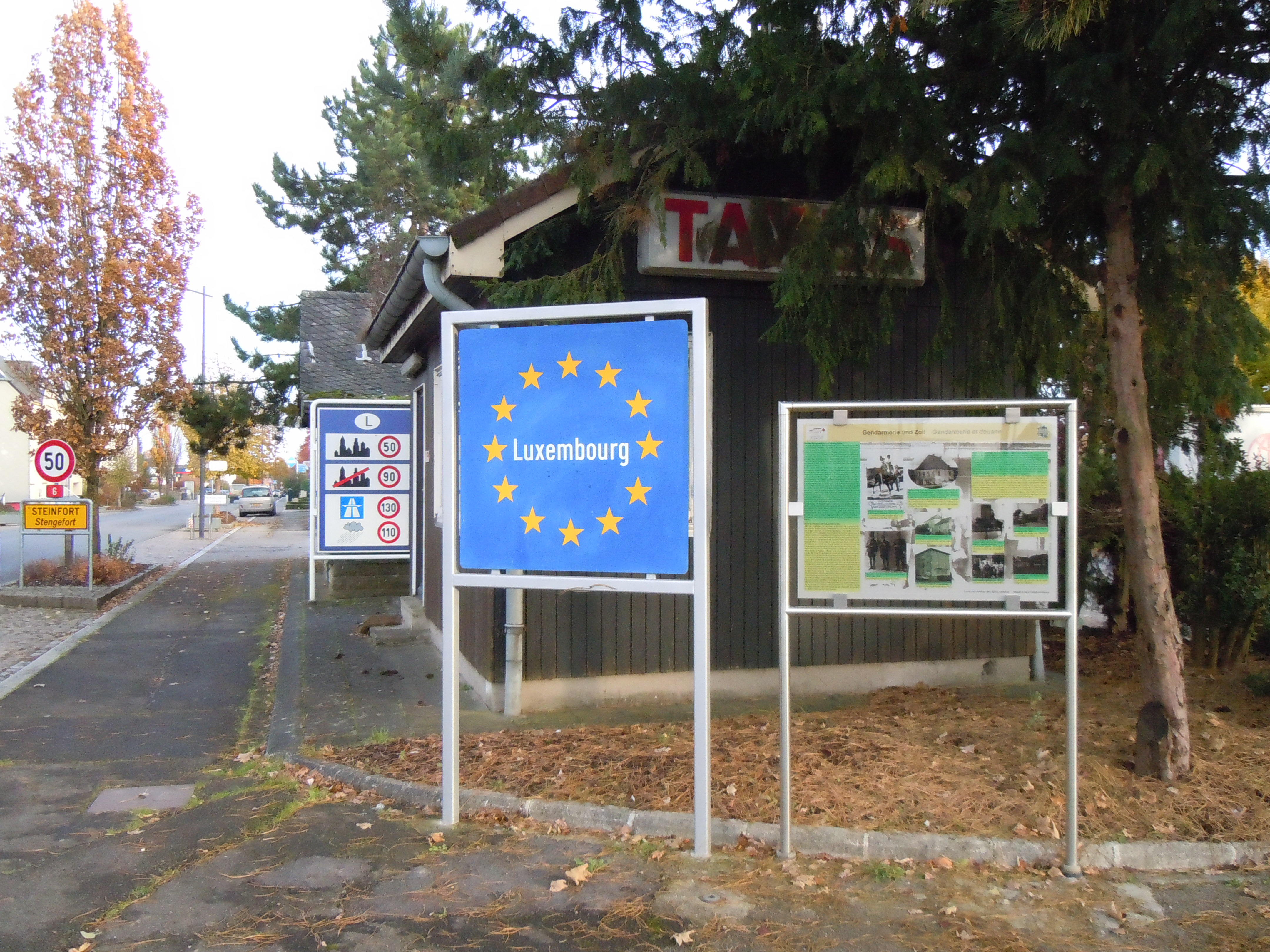 Customs-house, road signs and information board at the Belgian border in Steinfort, Luxembourg.